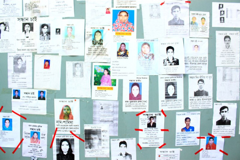 2013 Savar building collapse. Board with photos of missing people, posted by relatives. Photos taken by Sharat Chowdhury, permission obtained from him for use in Wikipedia under CC attribution.